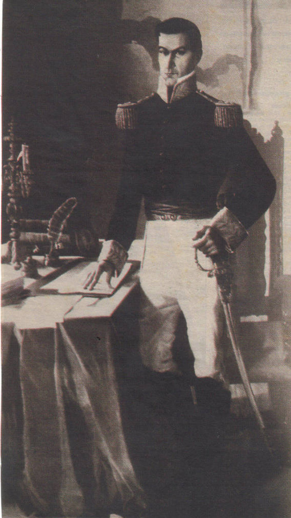 General Arce portrayed in his Office by an unknown artist.